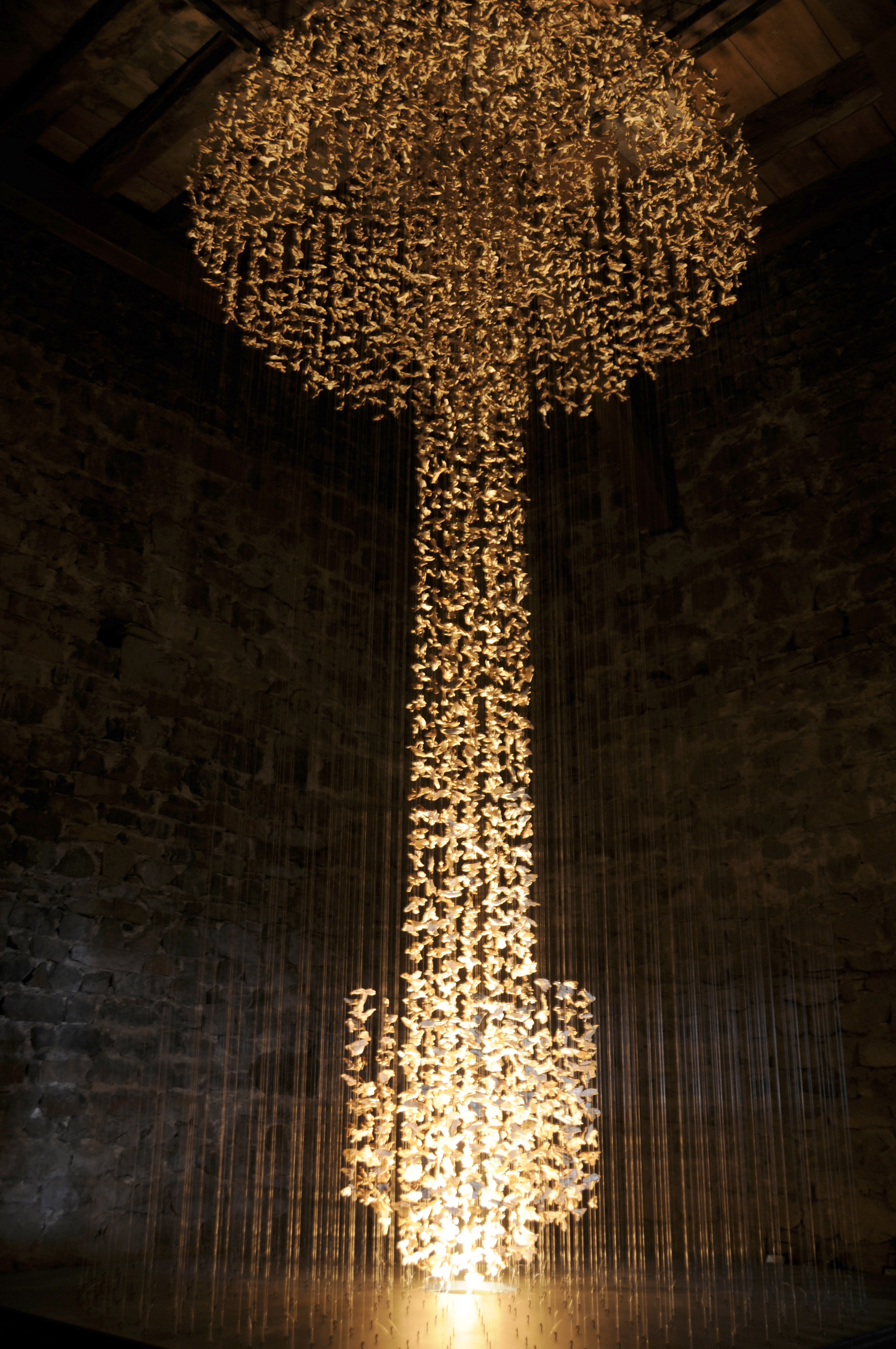 This photograph is of a work called Mushroom Cloud by the Land Artist Chris Drury. On the wikipedia page it says he is known for these works but there are no photographs of them! I therefore contacted him and asked him for photographs of the work, which he provided me, as well as photographs of other works mentioned in the Wikipedia entry. This is so we can properly update his page.